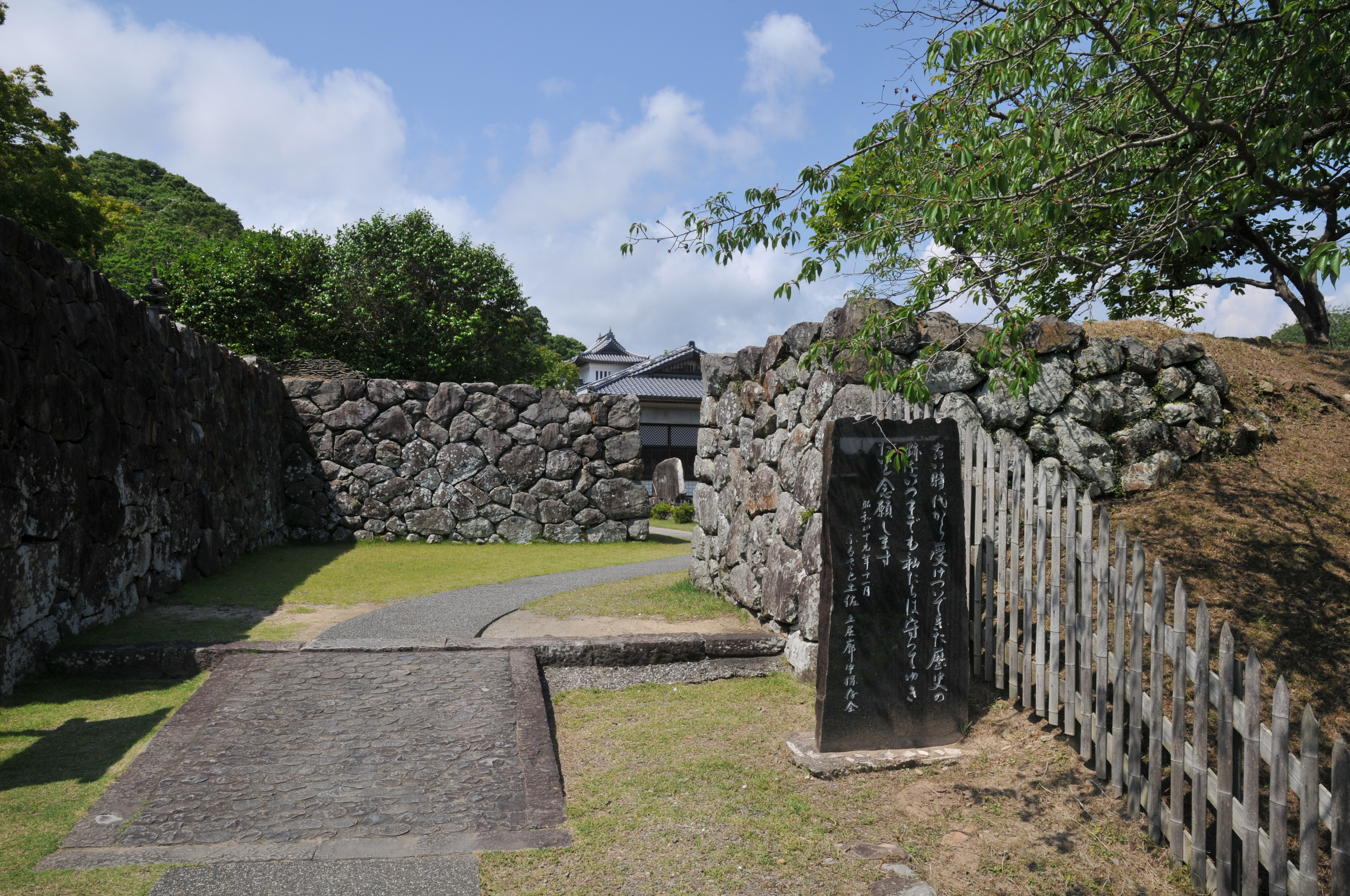 Aki-jō south enterance